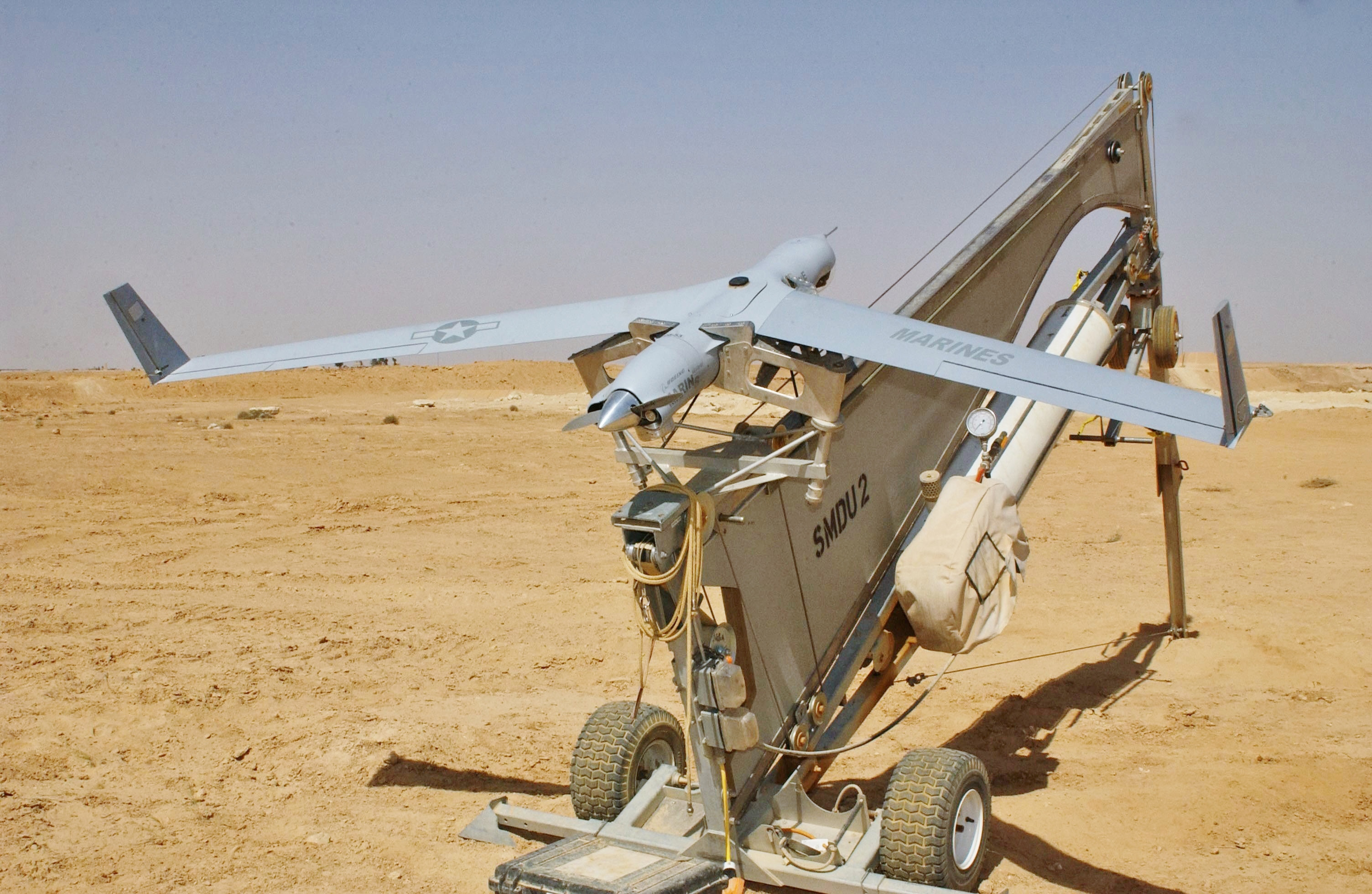 AL ASAD, Iraq--ScanEagle UAV sits on the catapult prior to launch. A small detachment of Marines and civilians is deployed here to provide intelligence, surveillance, and reconnaissance in western Iraq. The detachment is from Marine Unmanned Aerial Vehicle Squadron 2, 2nd Marine Aircraft Wing, Cherry Point, North Carolina. ScanEagle weighs approximately 40 pounds and has a 10-foot wingspan. The aircraft operates with a small engine, requiring a small amount fuel. Its 4-foot frame can remain airborne for more than 10 hours. Each drone is launched using a catapult system, which makes it runway independent and perfect for forward operating forces